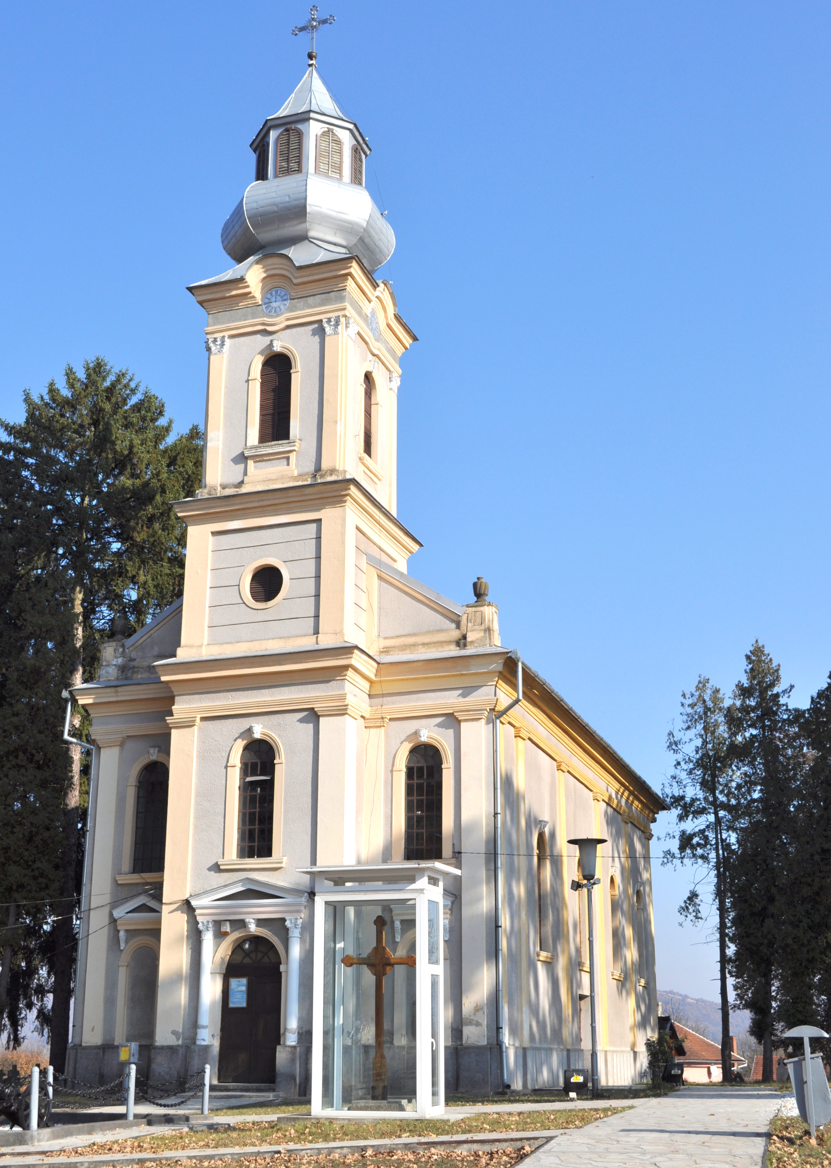 Church with Tricolour in Țebea, Hunedoara